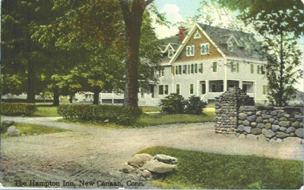 Postcard: Hampton Inn, New Canaan, Connecticut, 1909 postmark Description: Caption shown on lower lefthand corner of picture side of postcard: "The Hampton Inn, New Canaan, Conn." Store Web page states: "Pub by F A Dickerman, New Canaan, Conn [...] Postally Used - PM [postmark] New Canaan, Conn May 7, 1909, One Cent Stamp Intact"